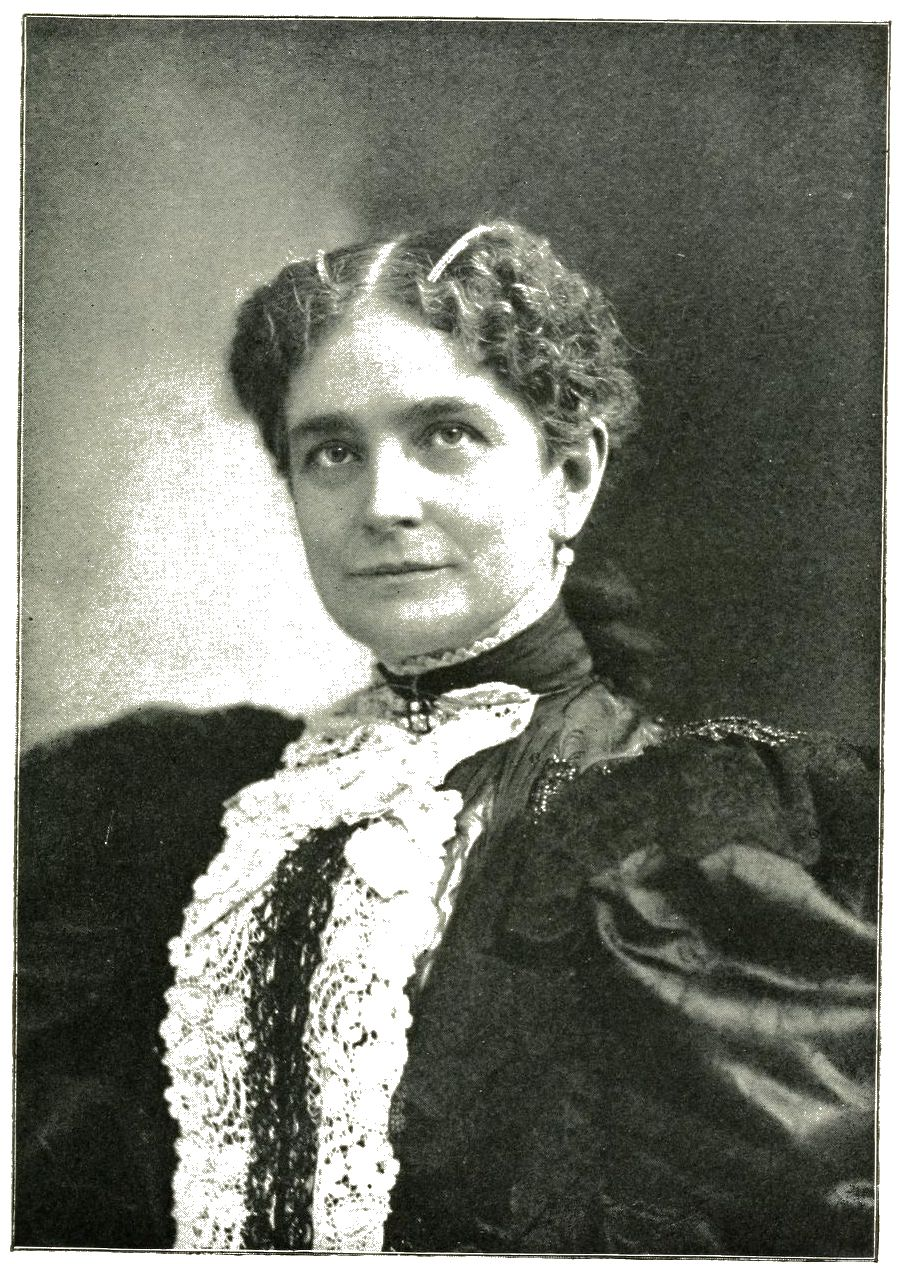 jpg of image on page 179 of File:American Boy's Life of William McKinley.djvu